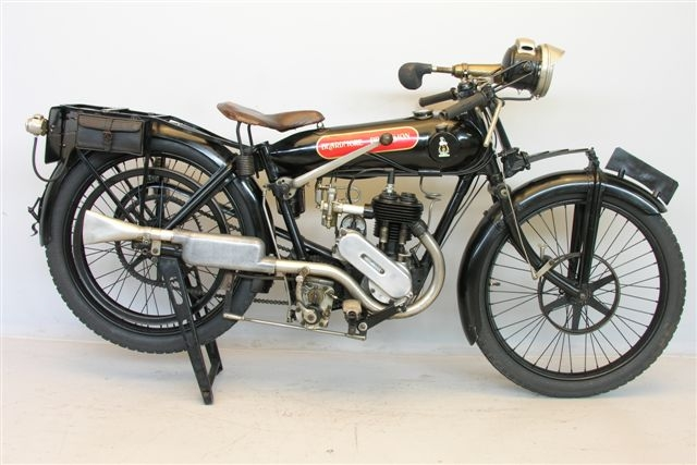 Beardmore Precision 350cc 1923.